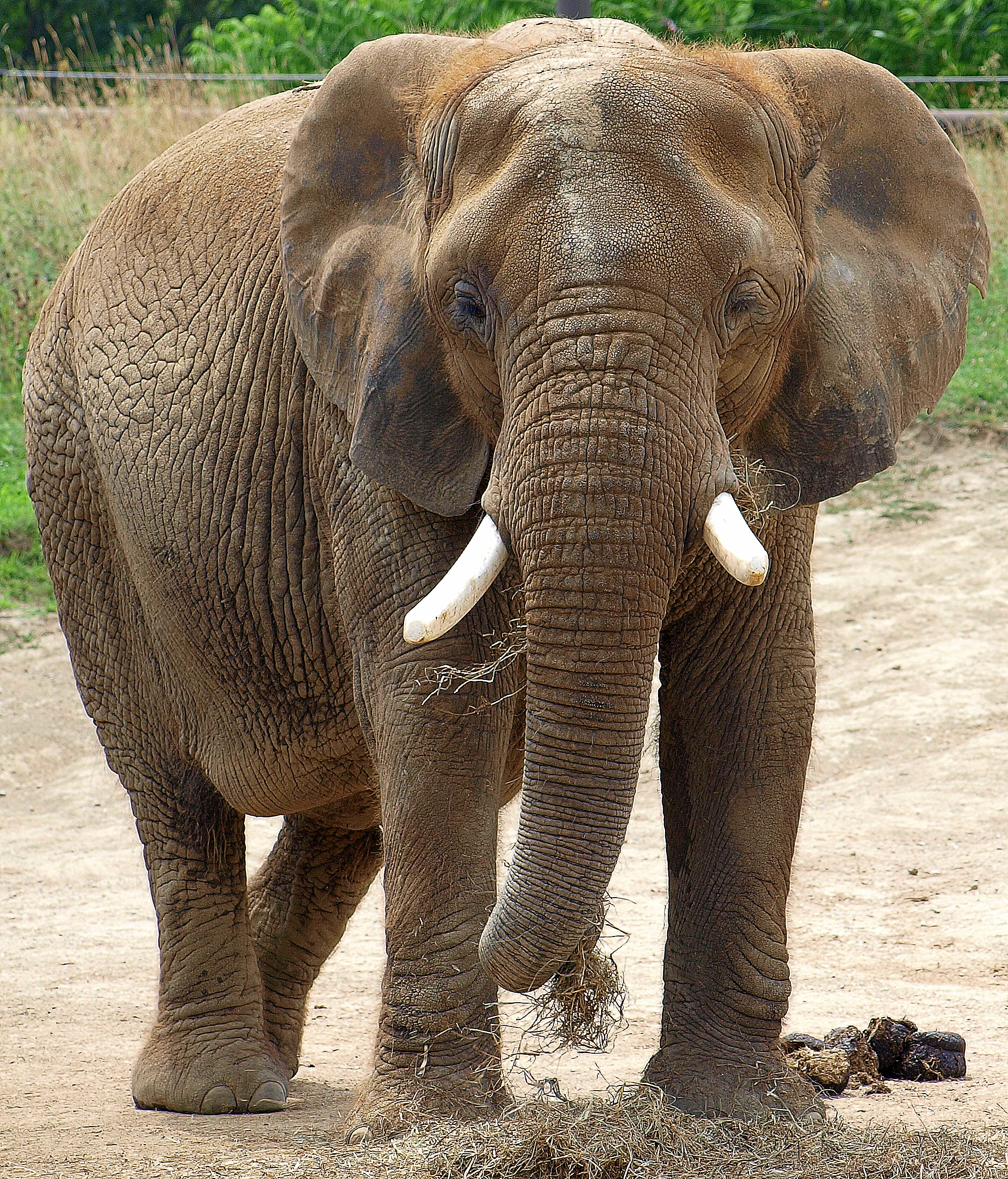 An African elephant at the Indianapolis Zoo eats straw.